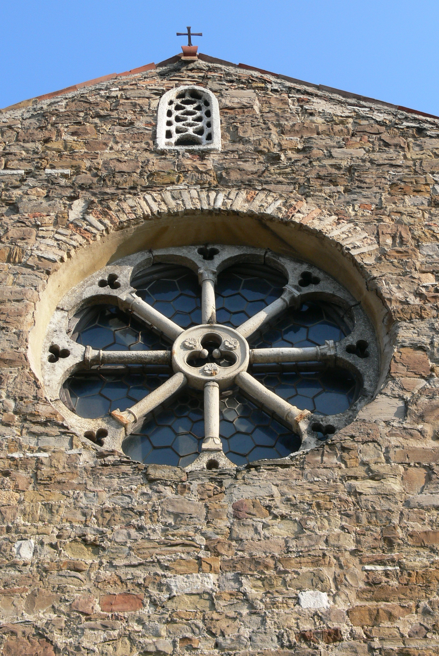 Trieste ( Italy ). San Silvestro: Romanesque rose window.